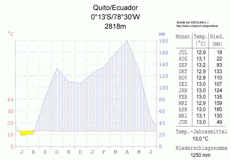 climate chart in the format by Walther and Lieth, metric, °Celsisus and millimeters, made with Geoklima 2.1